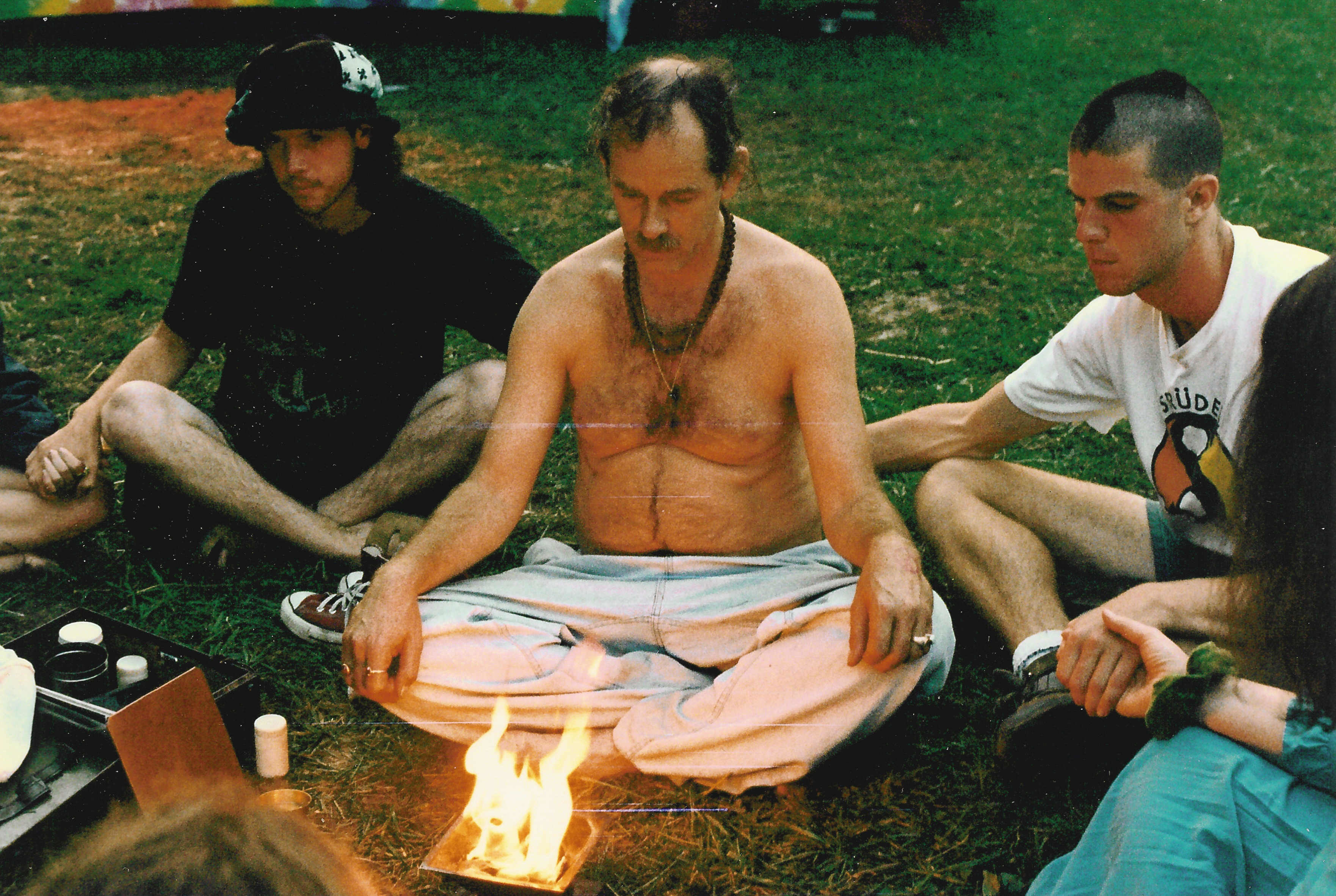 Jerry Fowler performs Agnihotra, Snoqualmie Moondance festival.